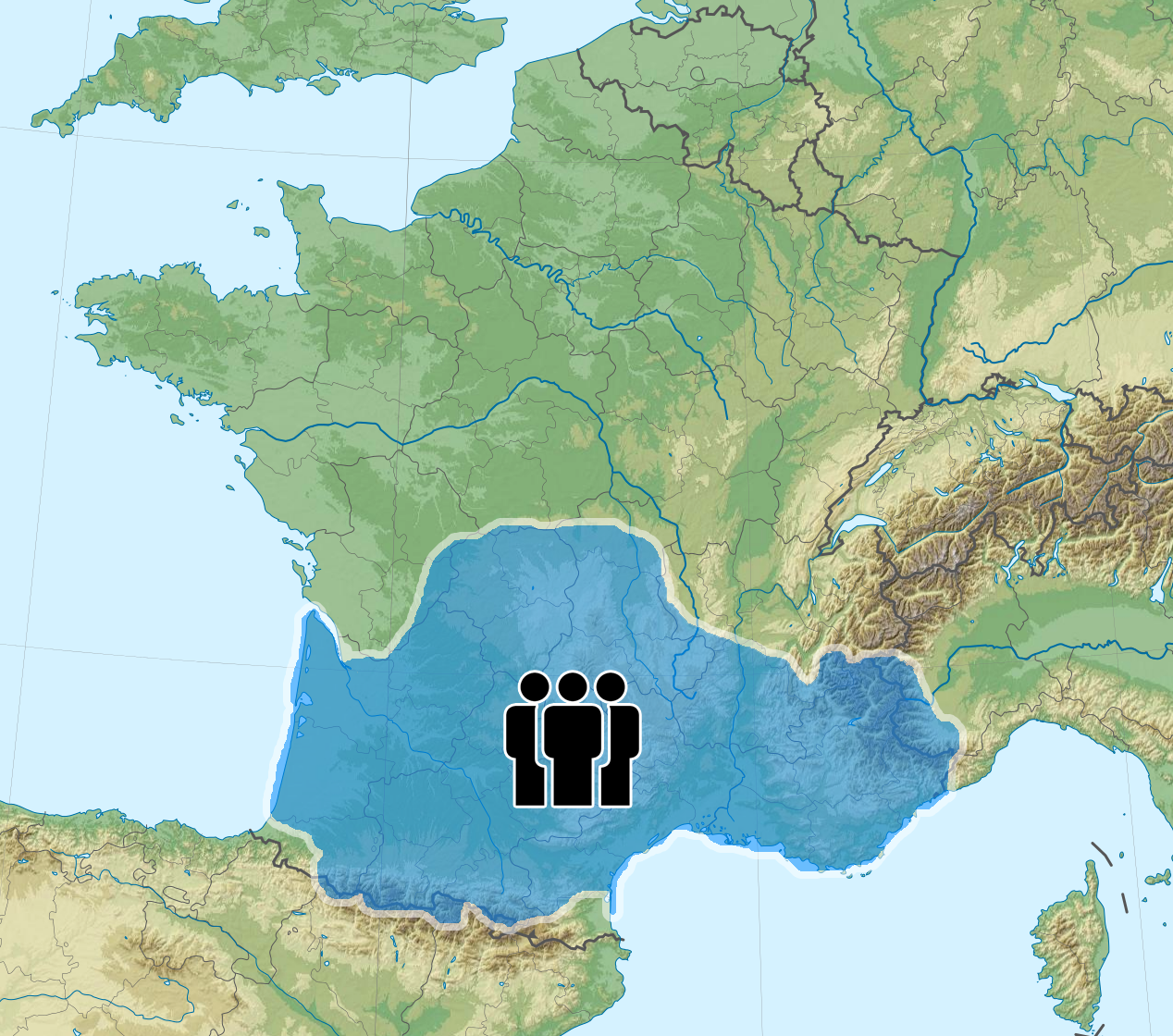 Map showing the area of the Occitans, an ethno-linguistic community in Europe. Occitan language